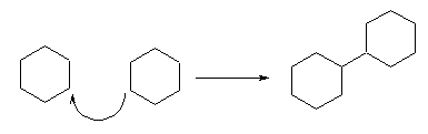 Assmbley cycloalkanes